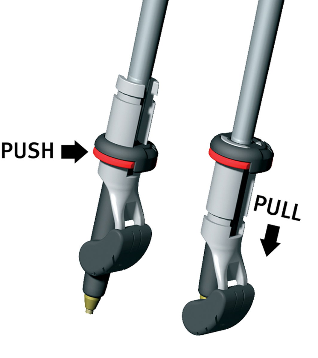 Push and Pull system for nordic walking sticks. Spike for offroad and rubber for asphalt